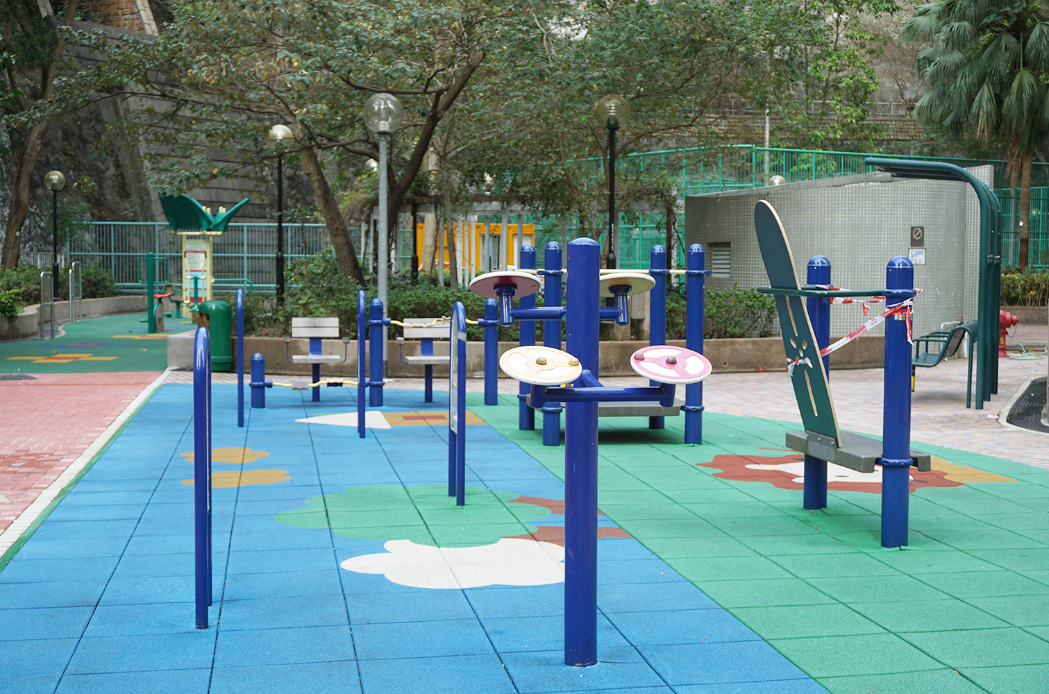 Shek Yam East Estate in Shek Yam, Hong Kong.